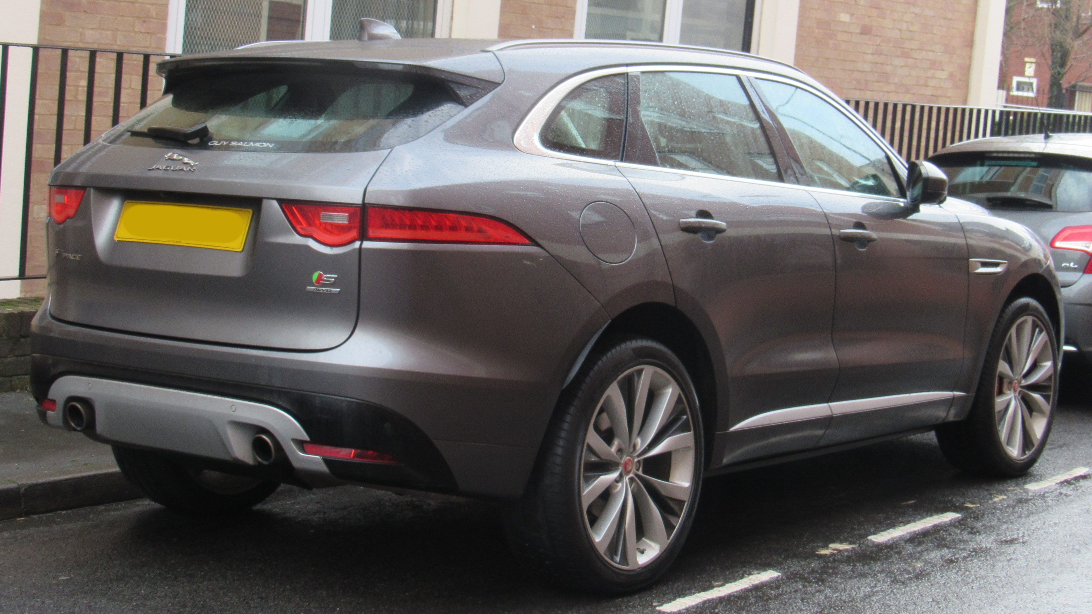 2016 Jaguar F-Pace V6 S AWD Automatic 3.0 Rear